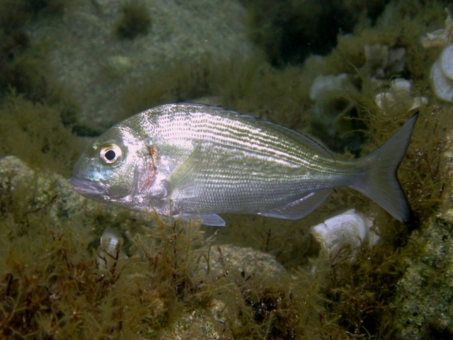 Sparus aurata photographed in Sardinia, Italy.